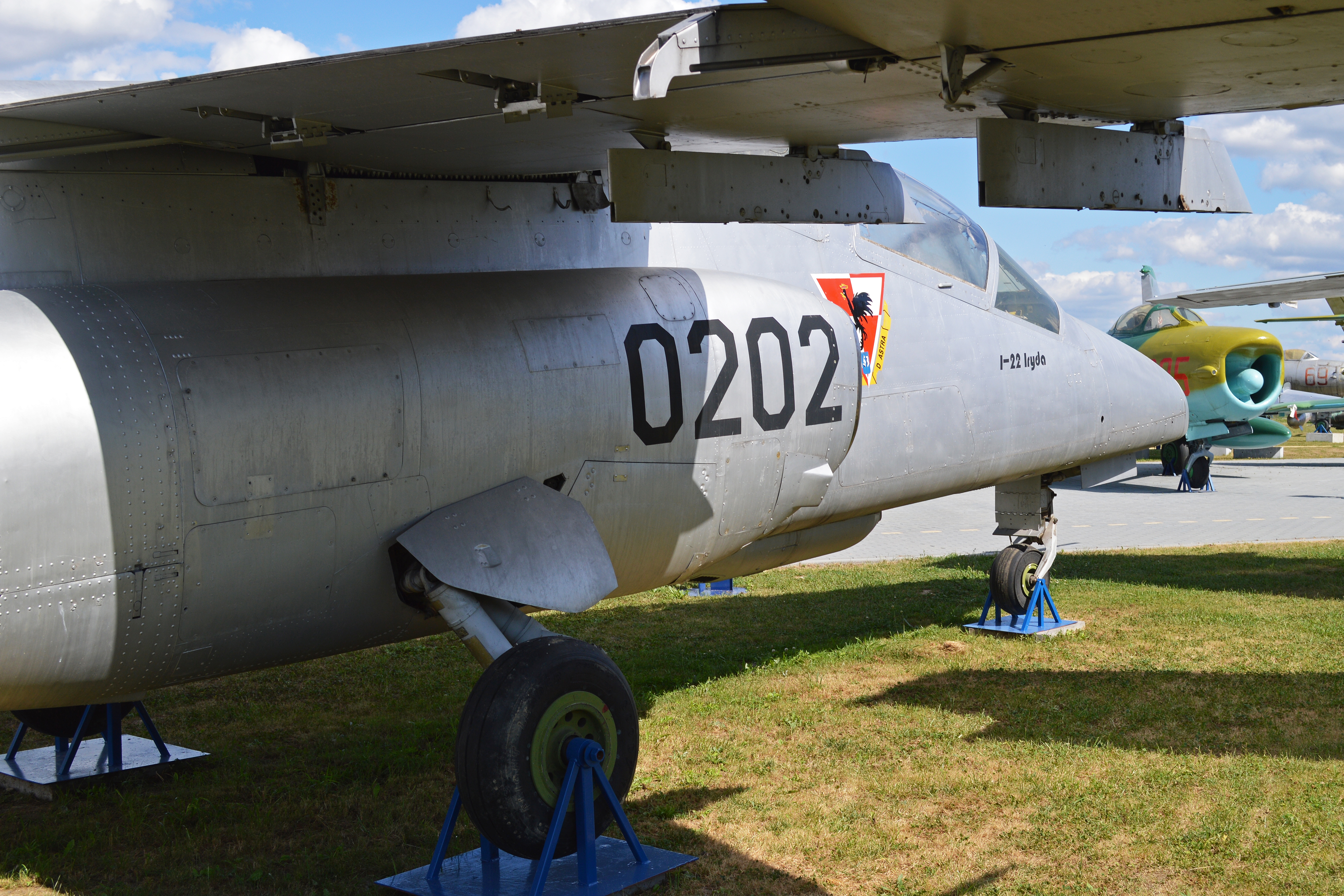 The I-22 was intended to replace the TS-11 Iskra in Polish Air Force service. It first flew in 1985 but was finally cancelled in 1996 due to budget. This is an early pre-production aircraft. c/n AN002-02. On display at the Muzeum Sit Powietrznych. Deblin, Poland. 25-8-2013